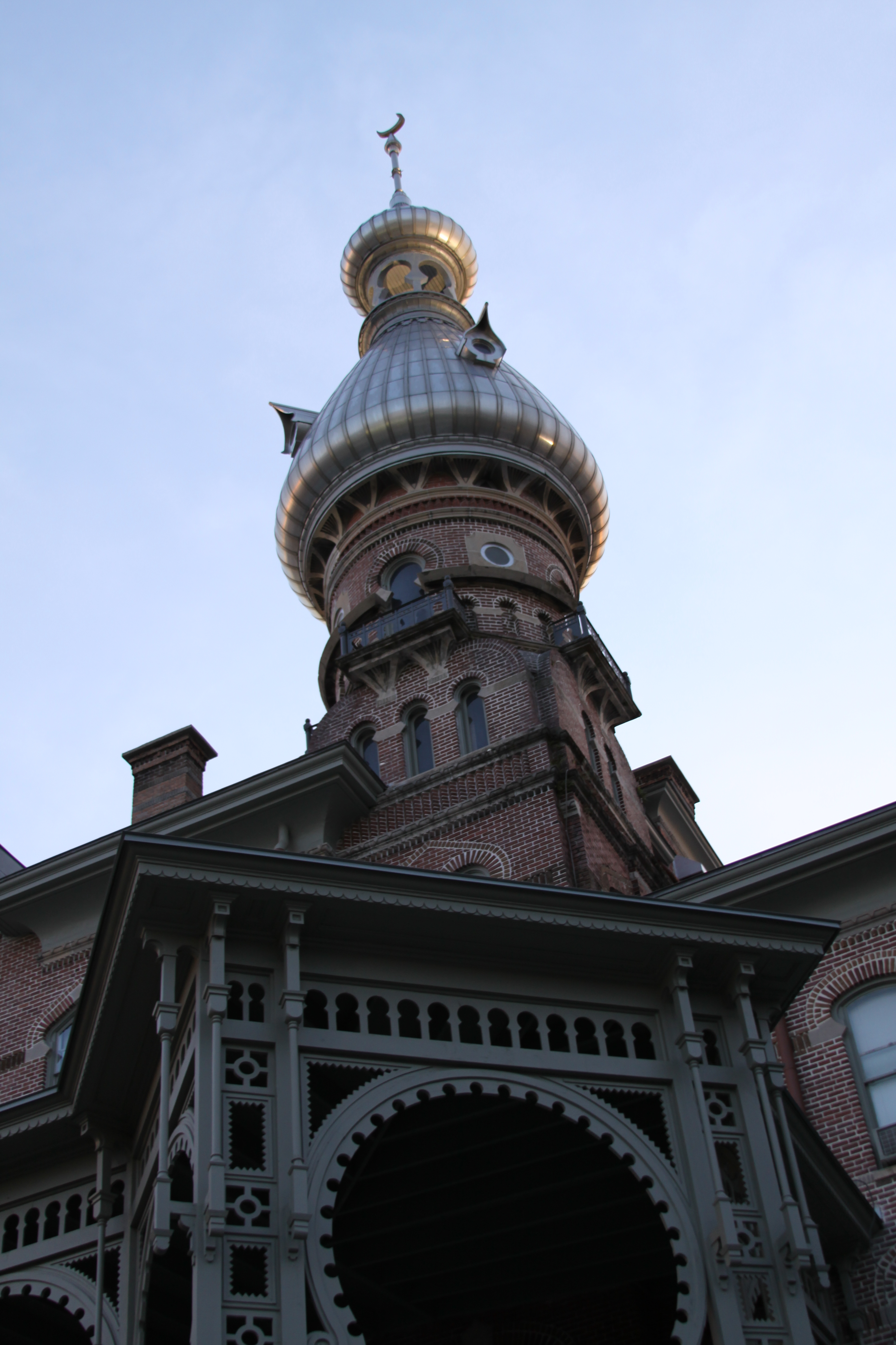 Old Tampa Bay Hotel tower, now the University of Tampa "Plant Hall" building.